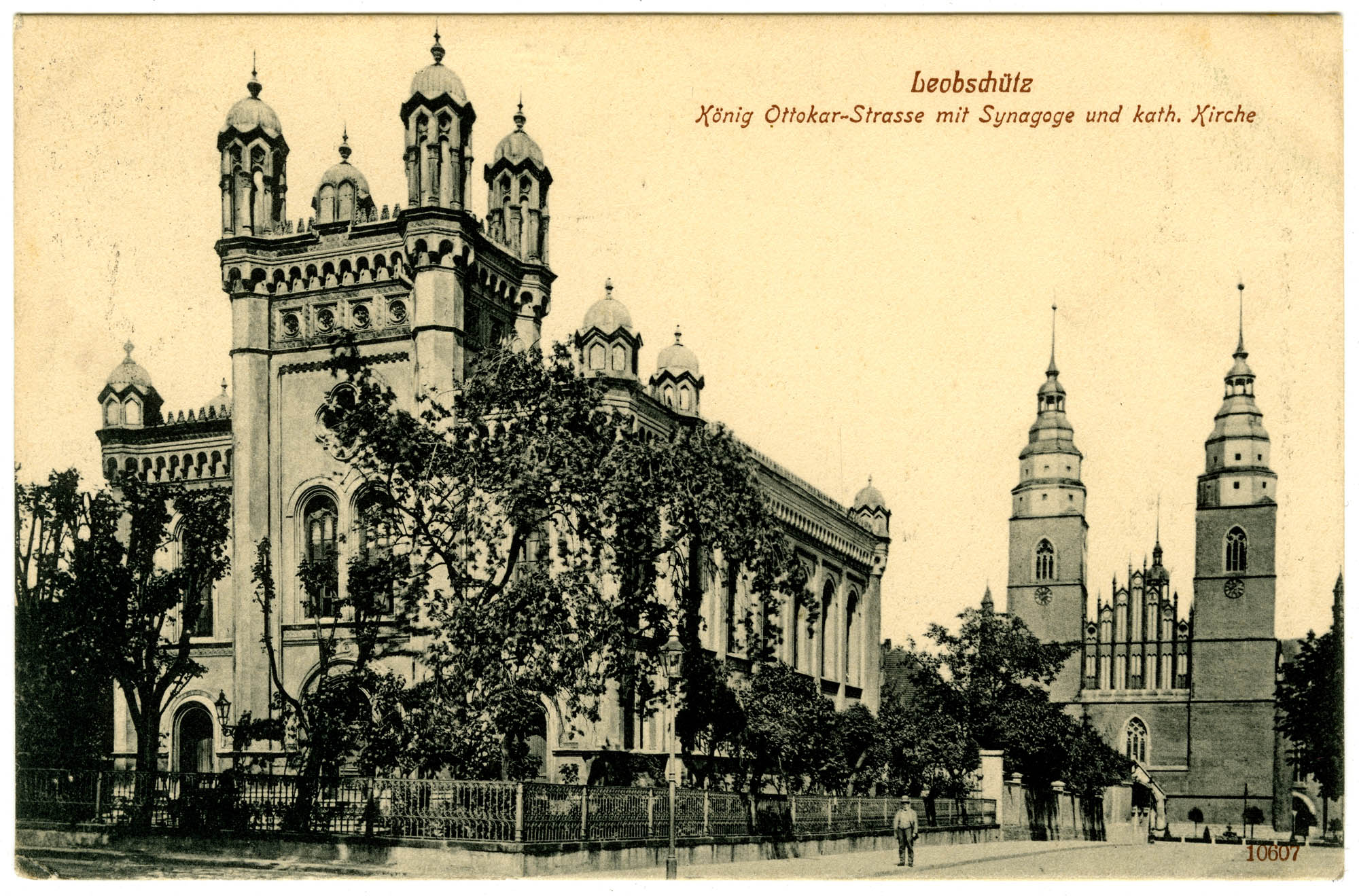 Leobschütz synagogue from a postcard of the en of the XIX century